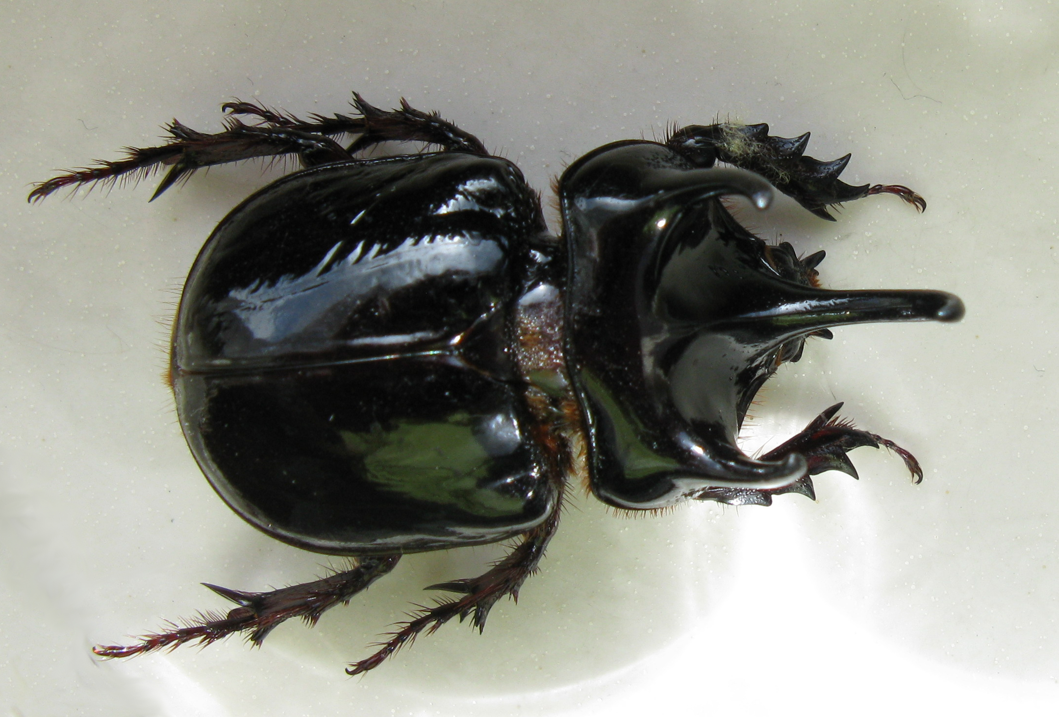 Strategus antaeus: Ox beetle, Rhinoceros beetle. Male.